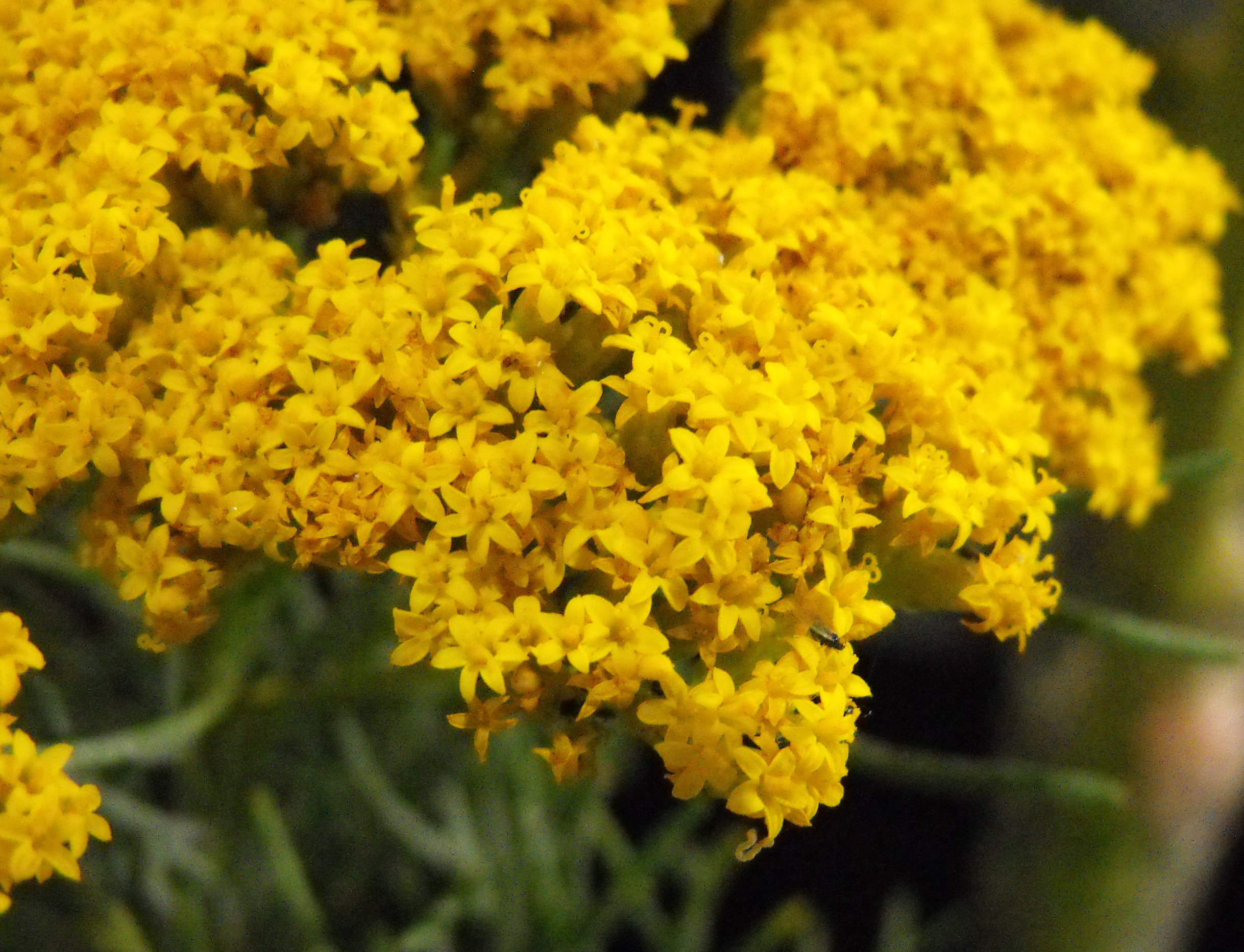 Athanasia acerosa on display at the San Diego County Fair, California, USA.